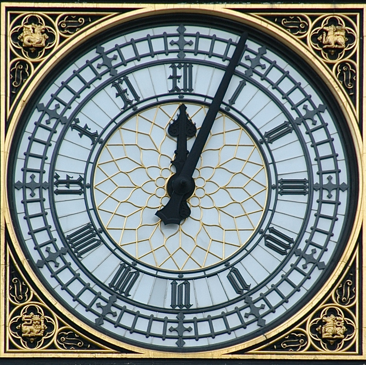 The Clock face on the Tower at the Palace of Westminster ("Big Ben").